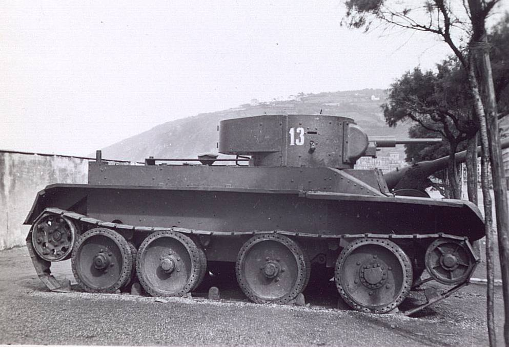 Soviet tank BT-5 supplied to the Spanish Republic Army